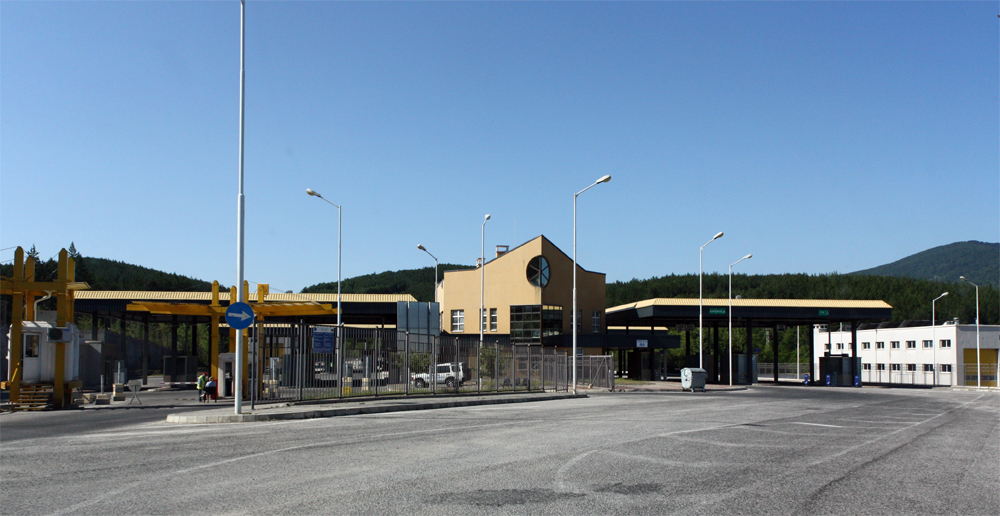 Border check Ilinden-Exohi between Bulgaria and Greece (the Bulgarian side)